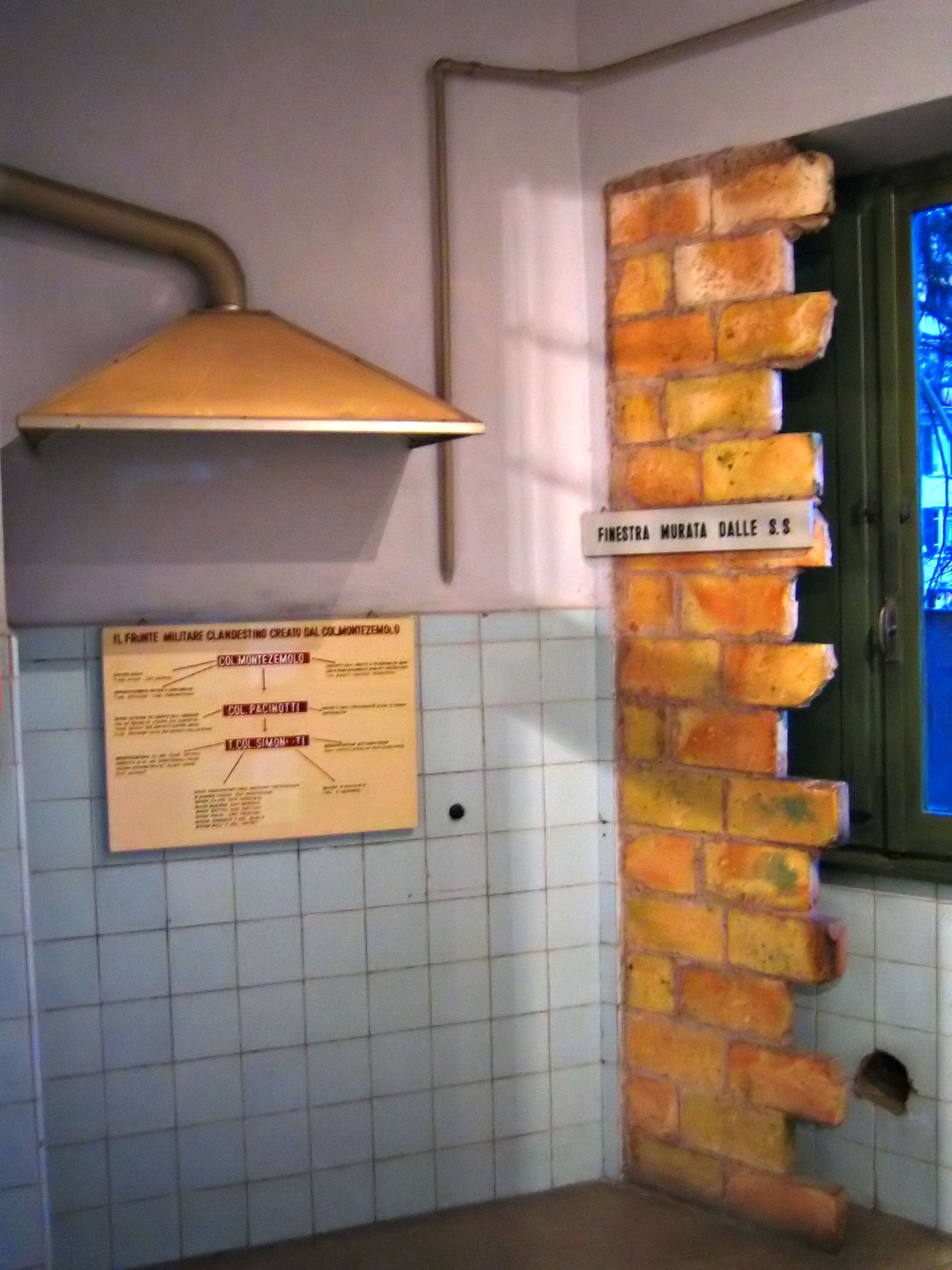 This kitchen was turned into a cell -- the appliances, apart from the sink, were taken out, and the window was bricked up by the SS. A prisoner, Col. Montezemolo, was kept here in pitch blackness for three months and brutally tortured before being dragged, more dead than alive, to the Ardeatine Caves for the group massacre. The window has been partially unbricked: the sign says "window walled up by the SS". I find it quite creepy that the stove hood is still there, a faint ghost of the room's original purpose, something familiar and even reassuring which underscores the horror of the subsequent use of the room.